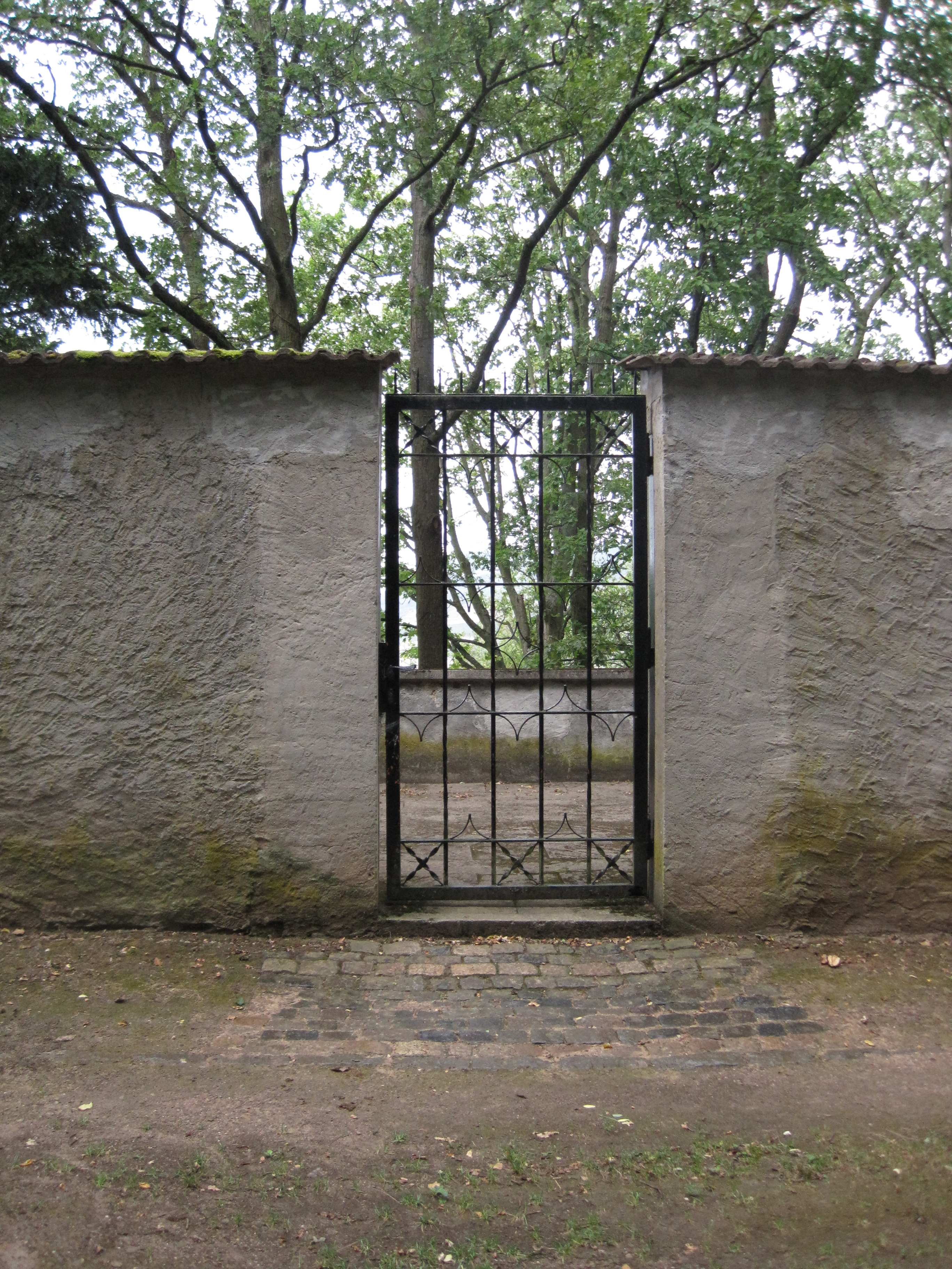 Jewish cemetery, Bingen am Rhein, Rhineland-Palatinate, Germany